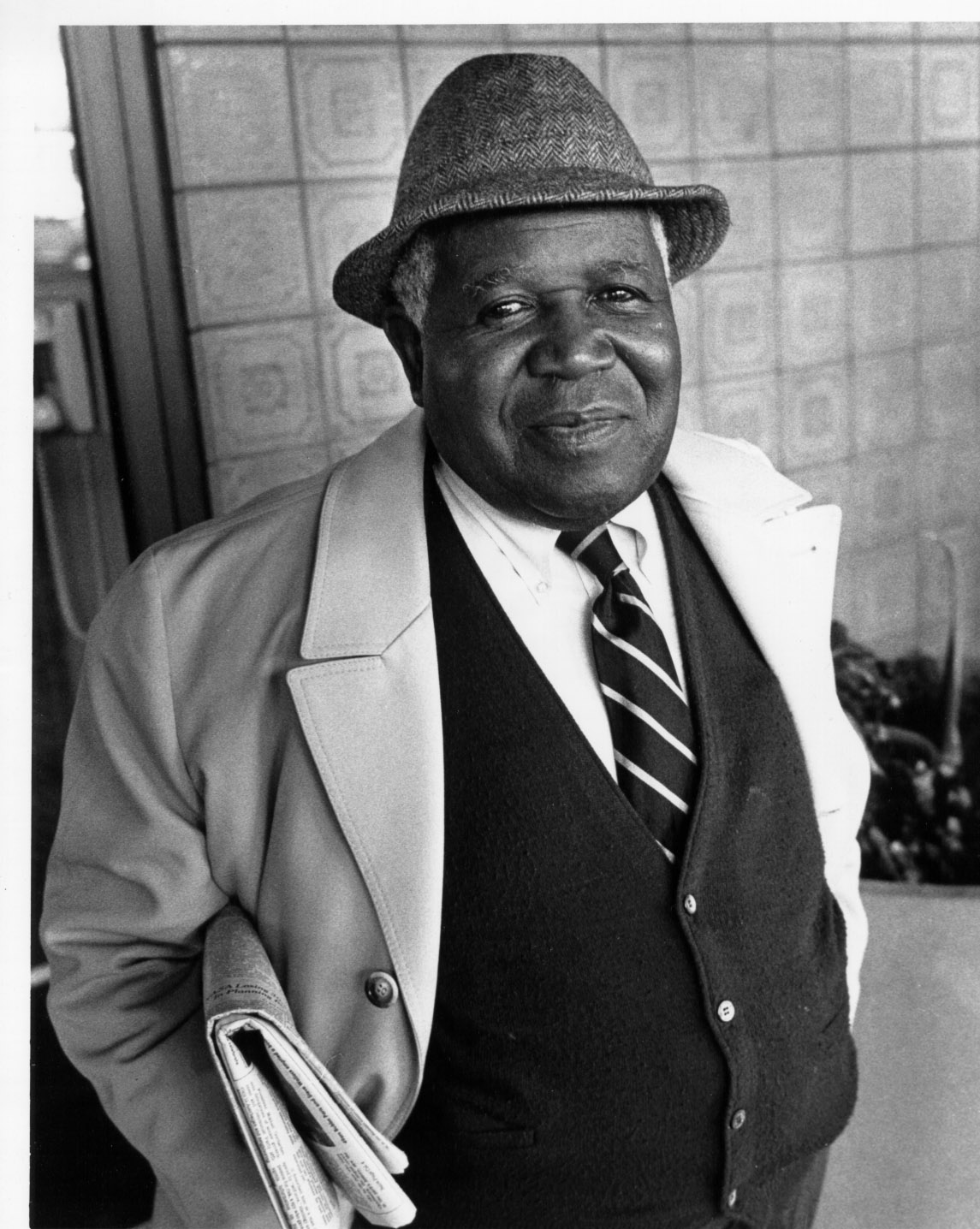 a photo of Thomas C. Fleming (journalist for the black press) to accompany the biographical article about him that I just submitted to Wikipedia the other day